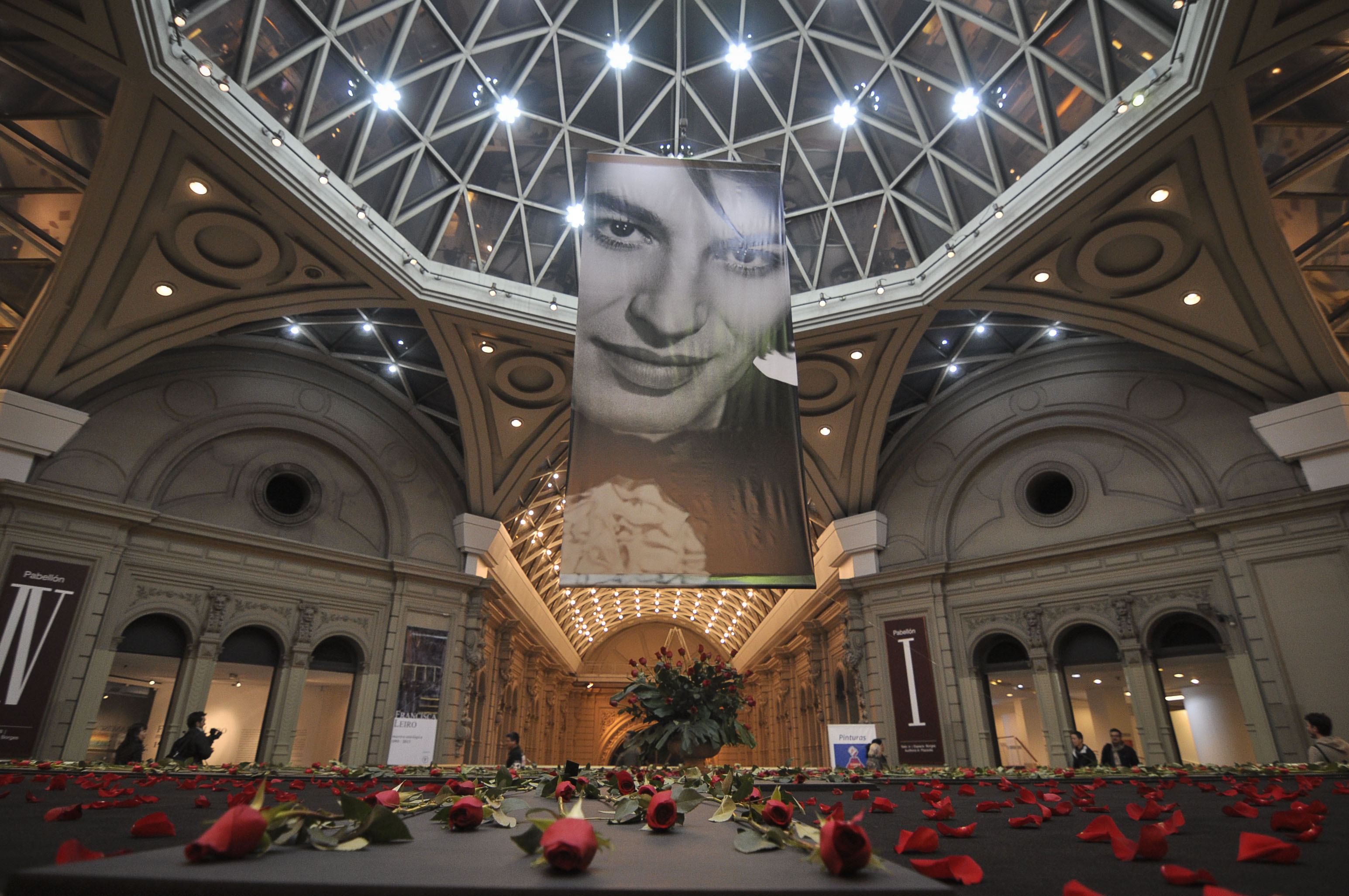 Inauguración de la muestra que recorre la vida de este gran artista a través de su colección privada de instrumentos, vestuarios, autos, discos, fotos y hasta recetas de cocina. La muestra cuenta con el apoyo del Grupo Octubre.